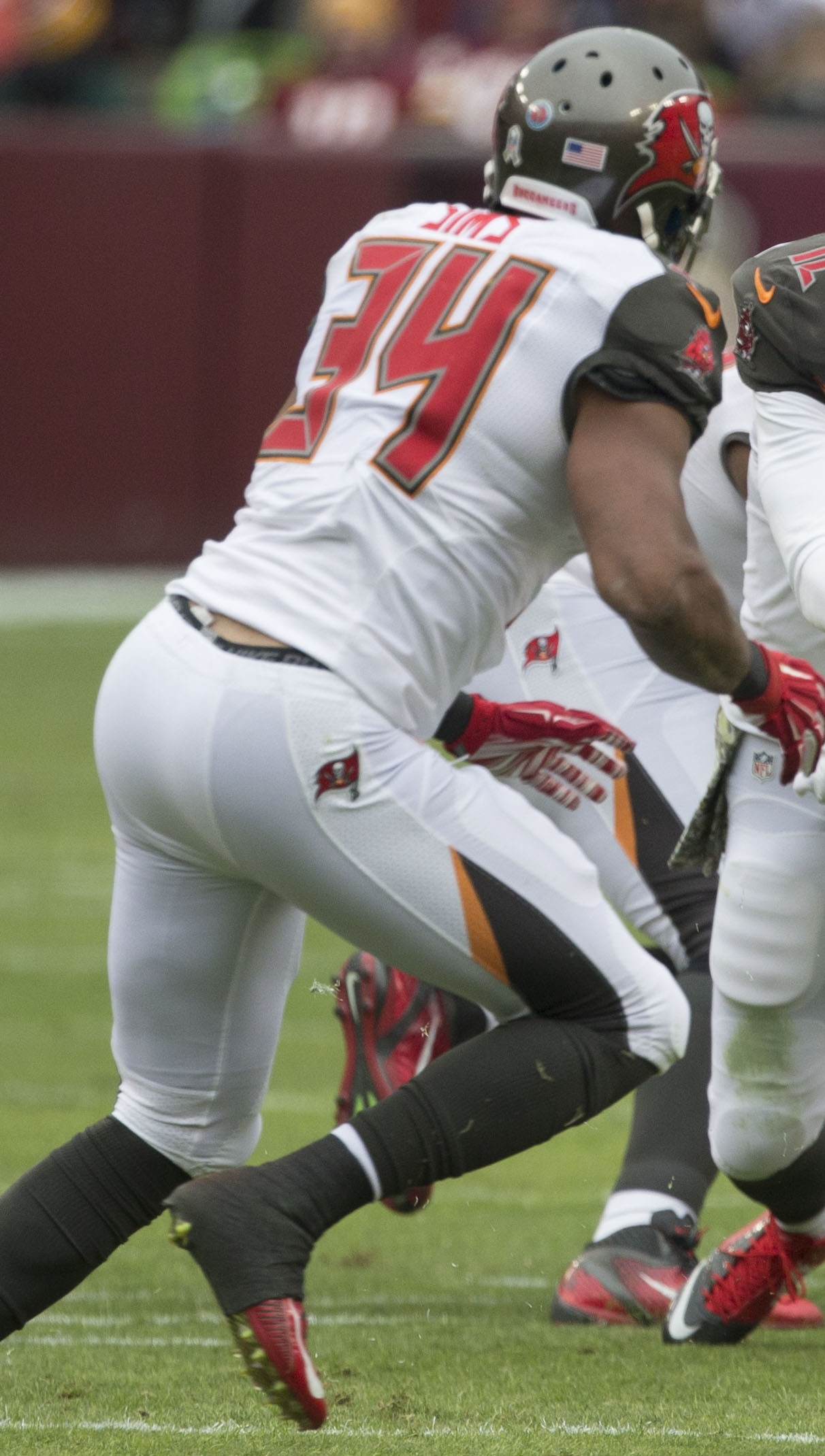 Buccaneers at Redskins 11/16/14